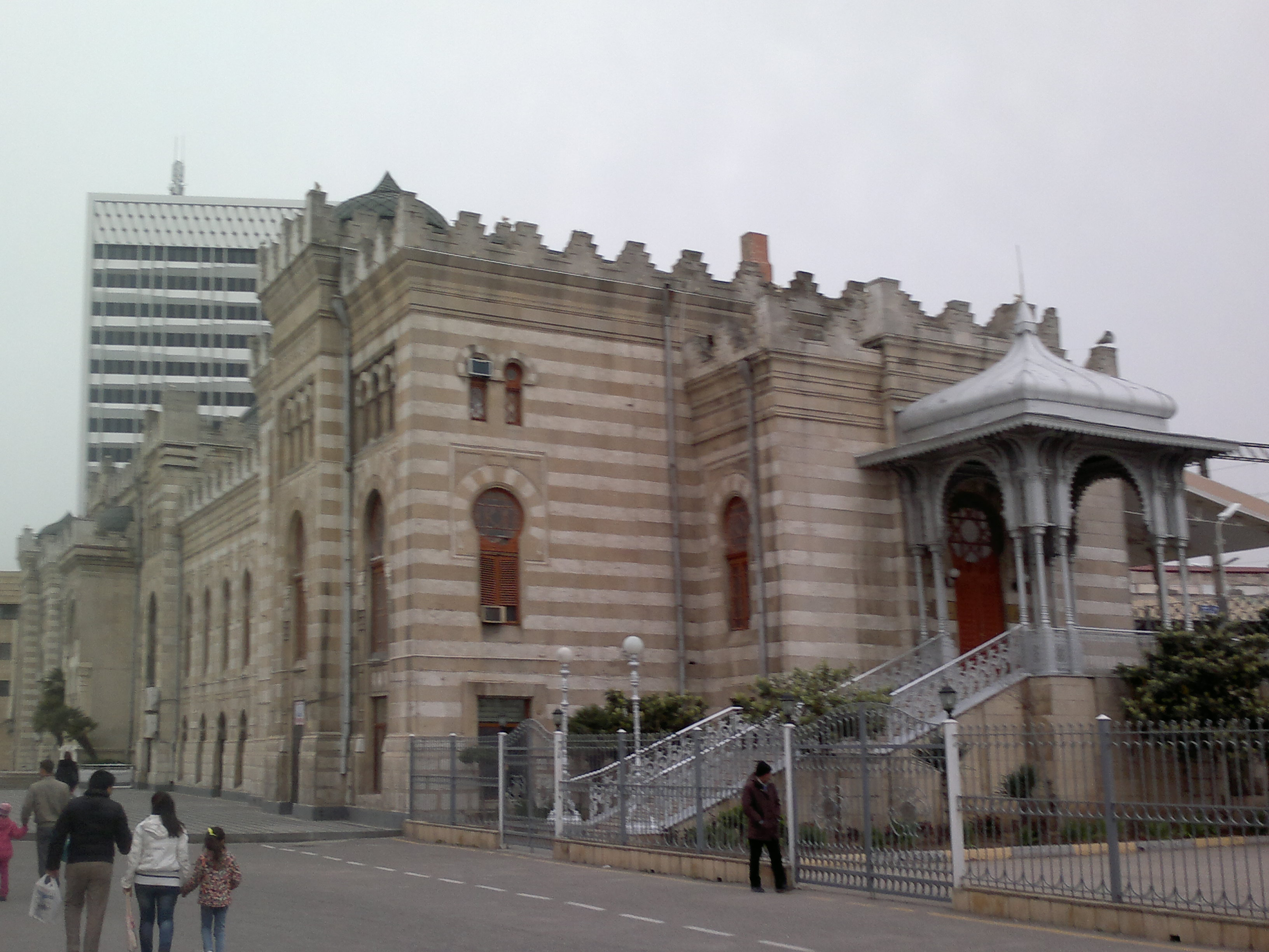 Baku train station